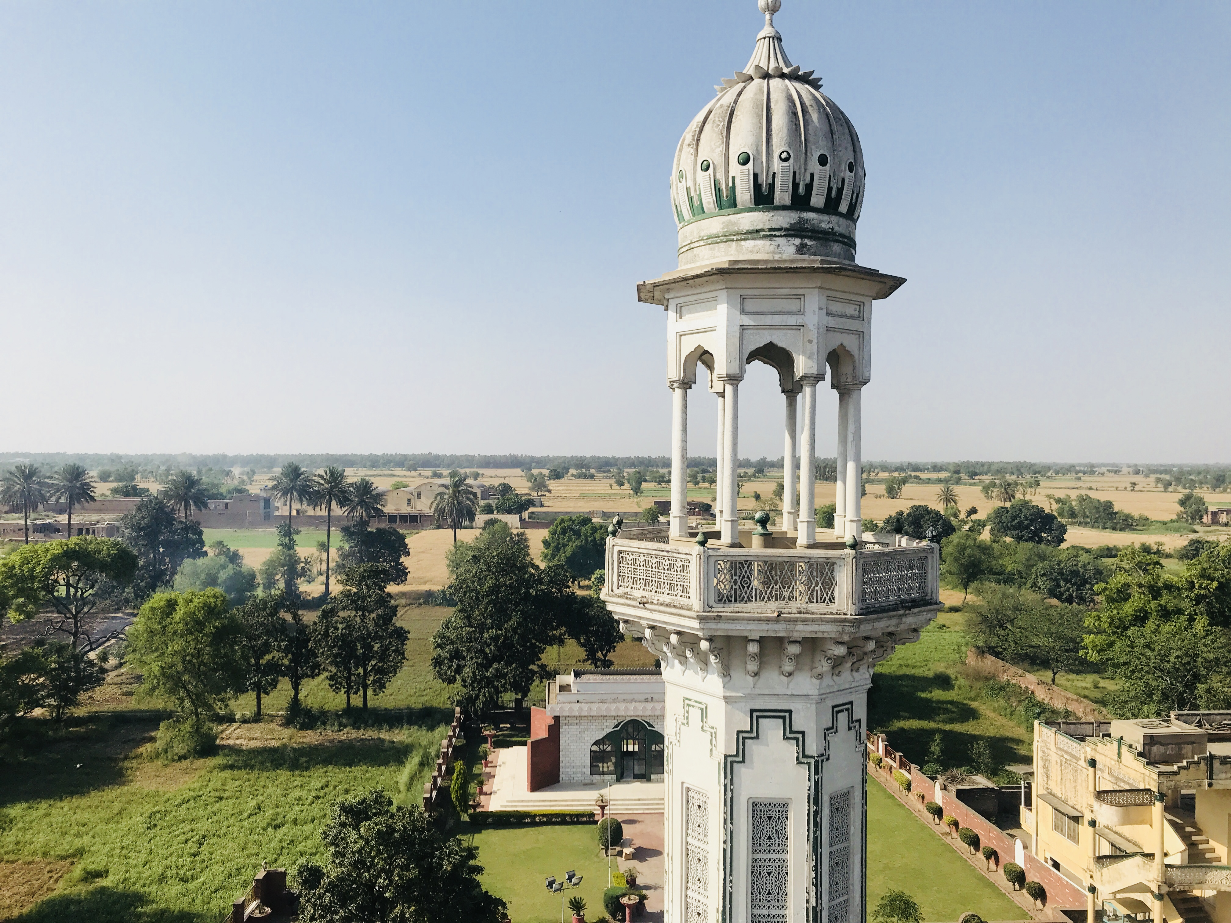 Mosque at Maulana Zafar Ali Khan Mauseleum in Wazirabad